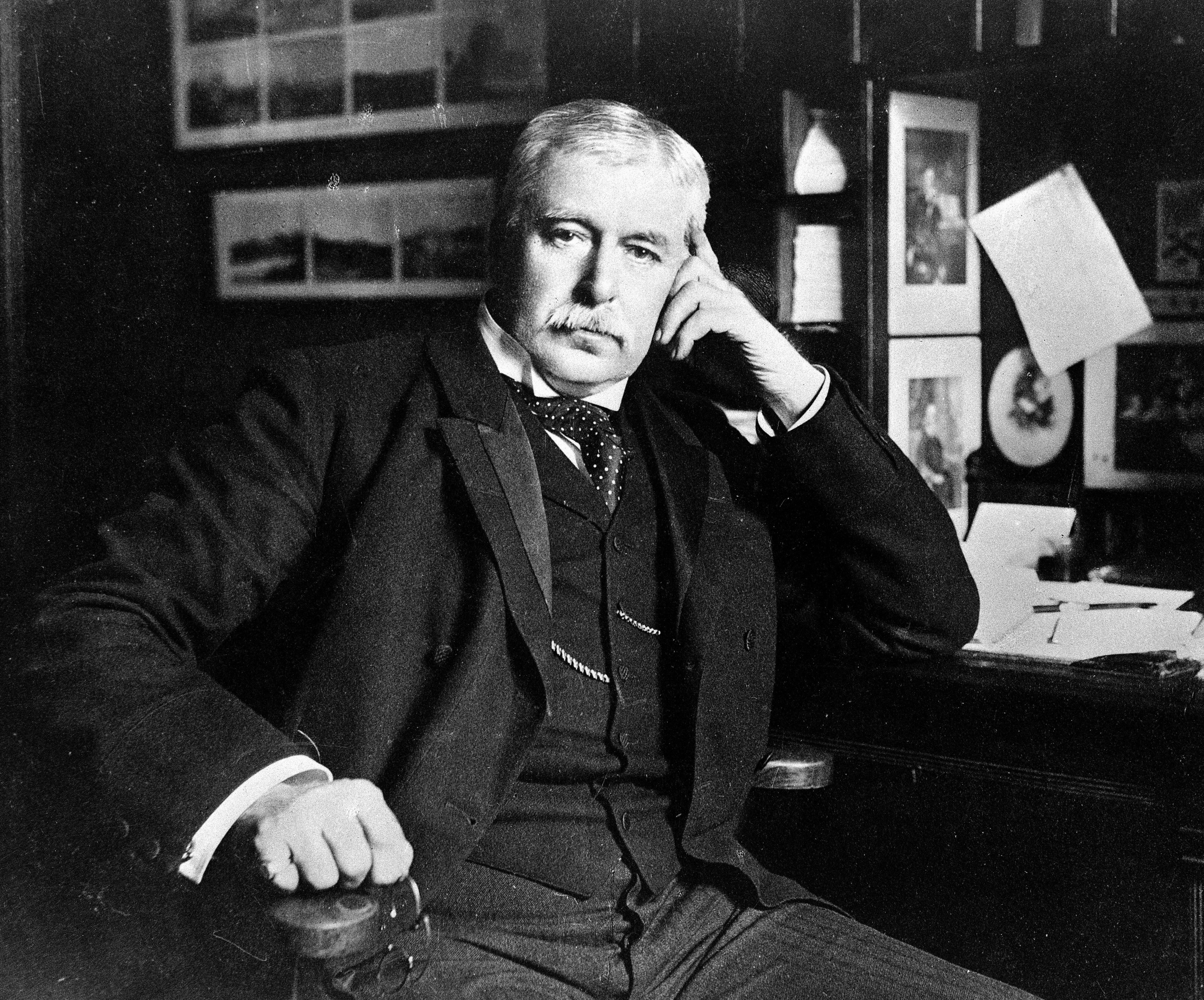 Sir Patrick Manson